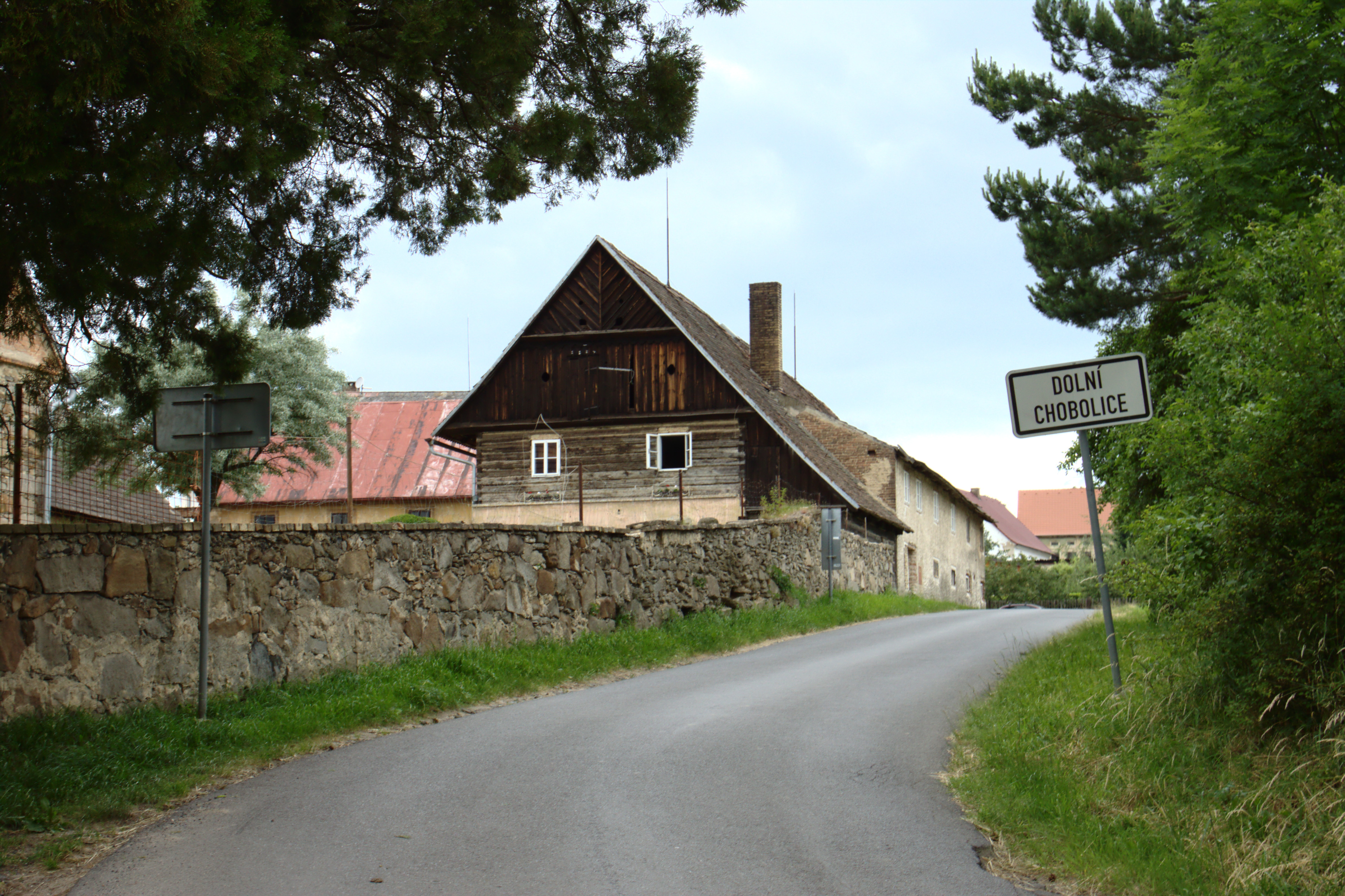 Buildings in Dolní Chobolice, Ústí Region, CZ